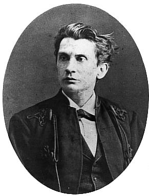 Leopold von Sacher-Masoch (1836–1895) - Austrian writer and journalist, who gained renown for his romantic stories of Galician life. The term masochism is derived from his name.